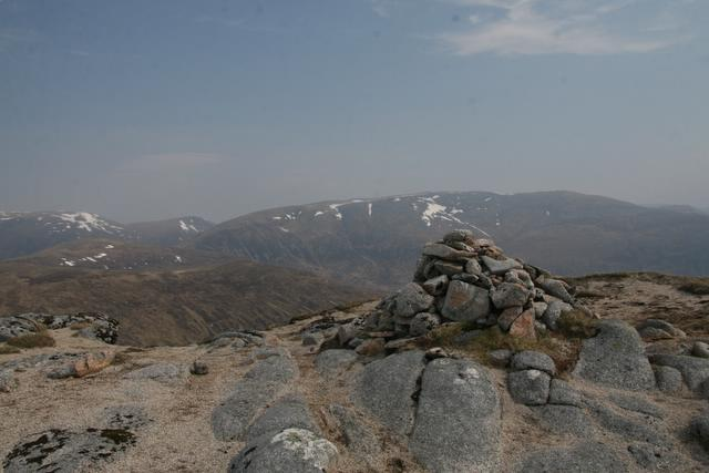 Summit cairn - Sgor Gaibhre The hulking mass of Ben Alder NN4971 in the background.